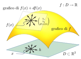 Shows what the differential of a function does